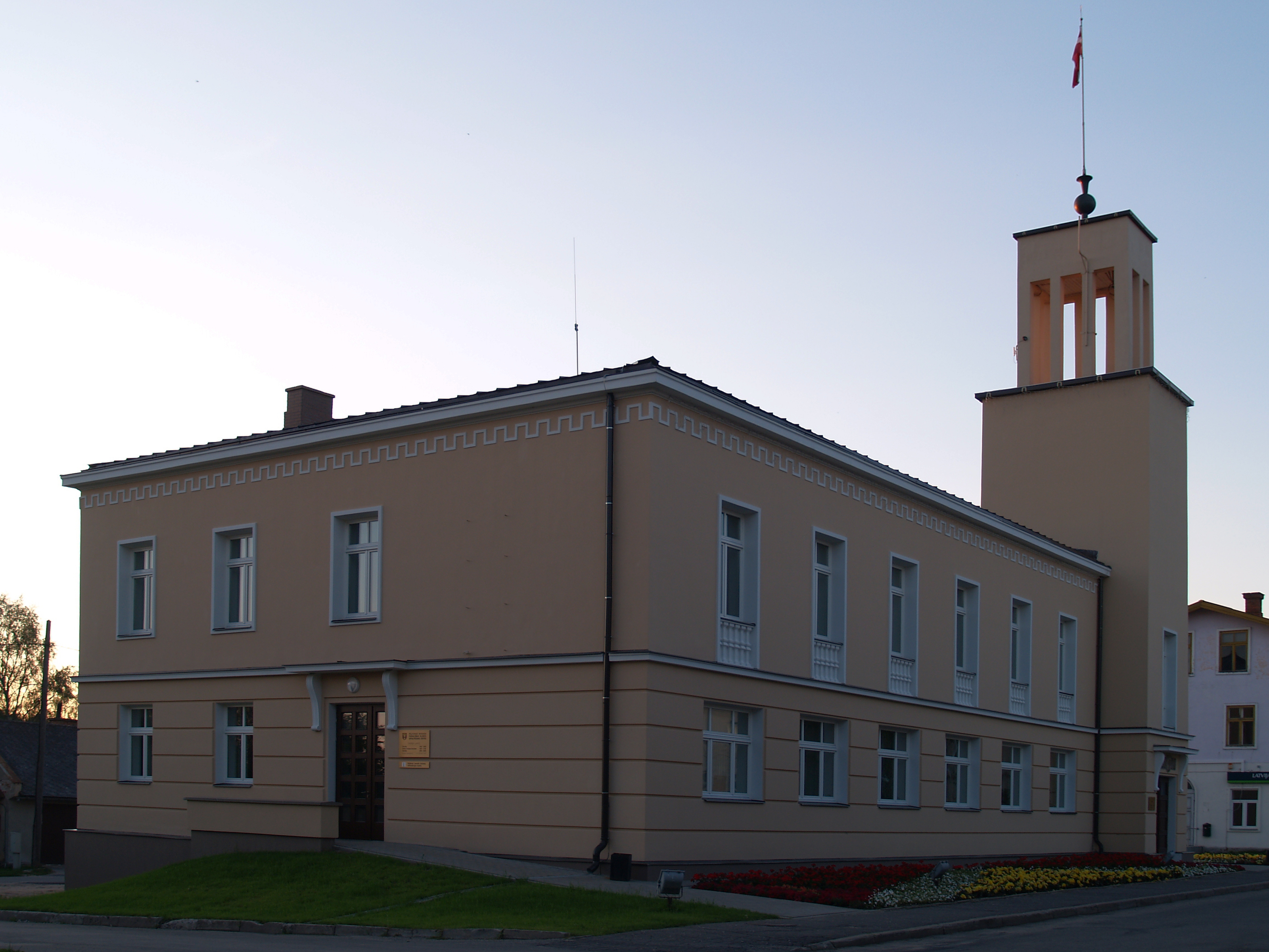 Rūjiena self-goverment